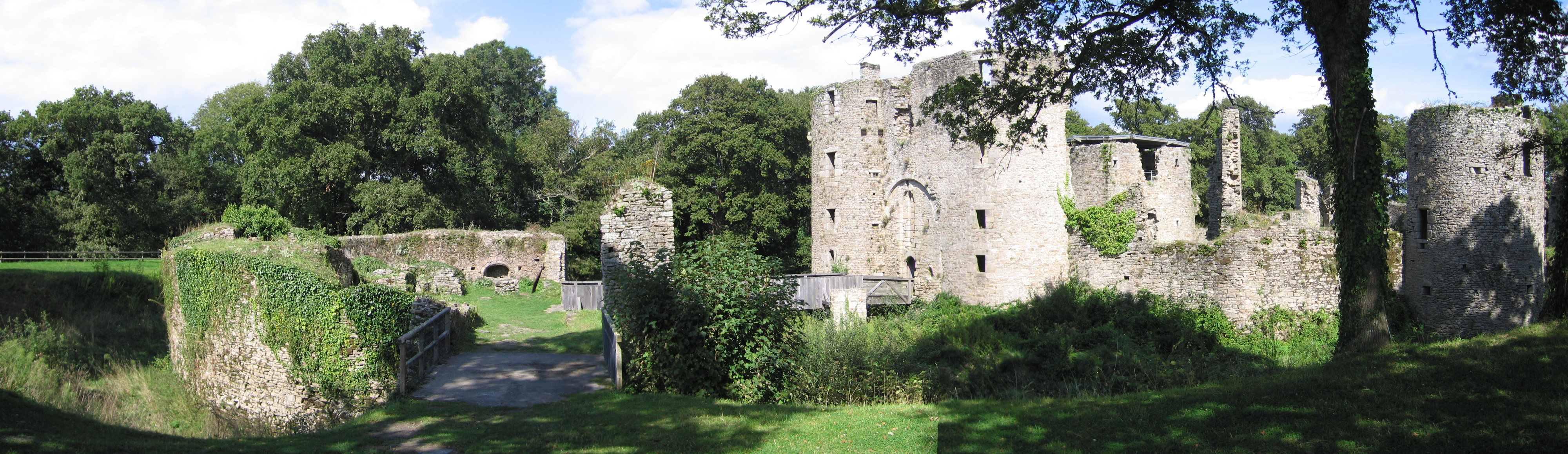 Panorama of the Ranrouët castle, from barbican to SE tower.